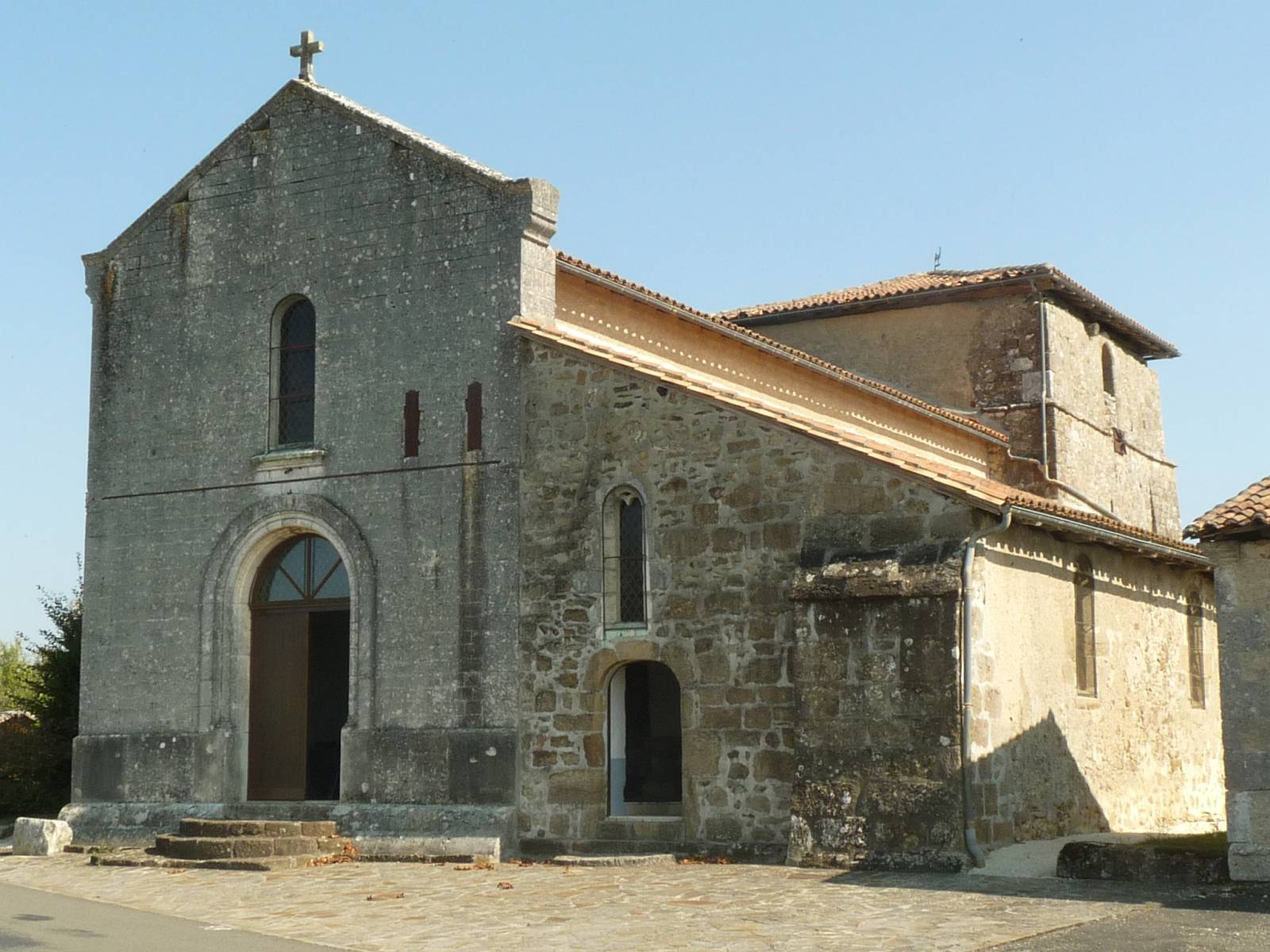 church of Rouzède, Charente, SW France